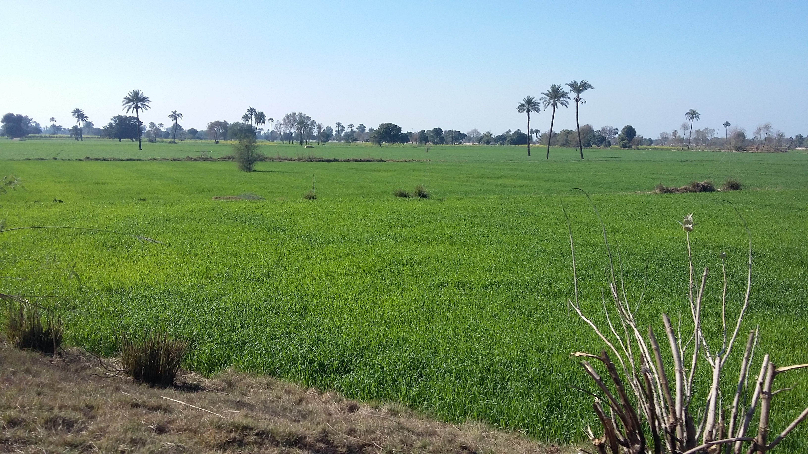 Here's the beauty of my favorite city Bahawalpur.The fields in this pic